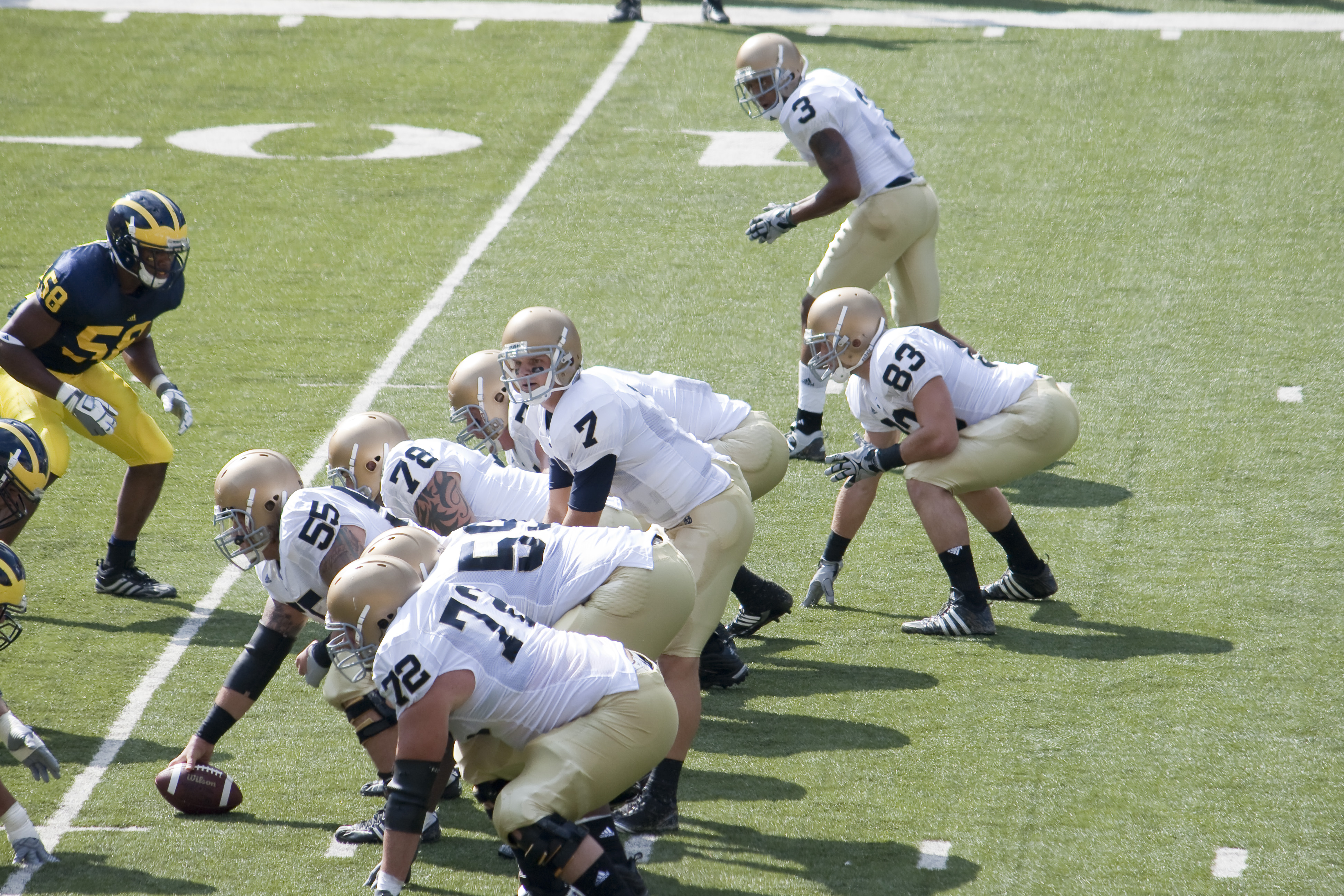 Jimmy Clausen taking a snap